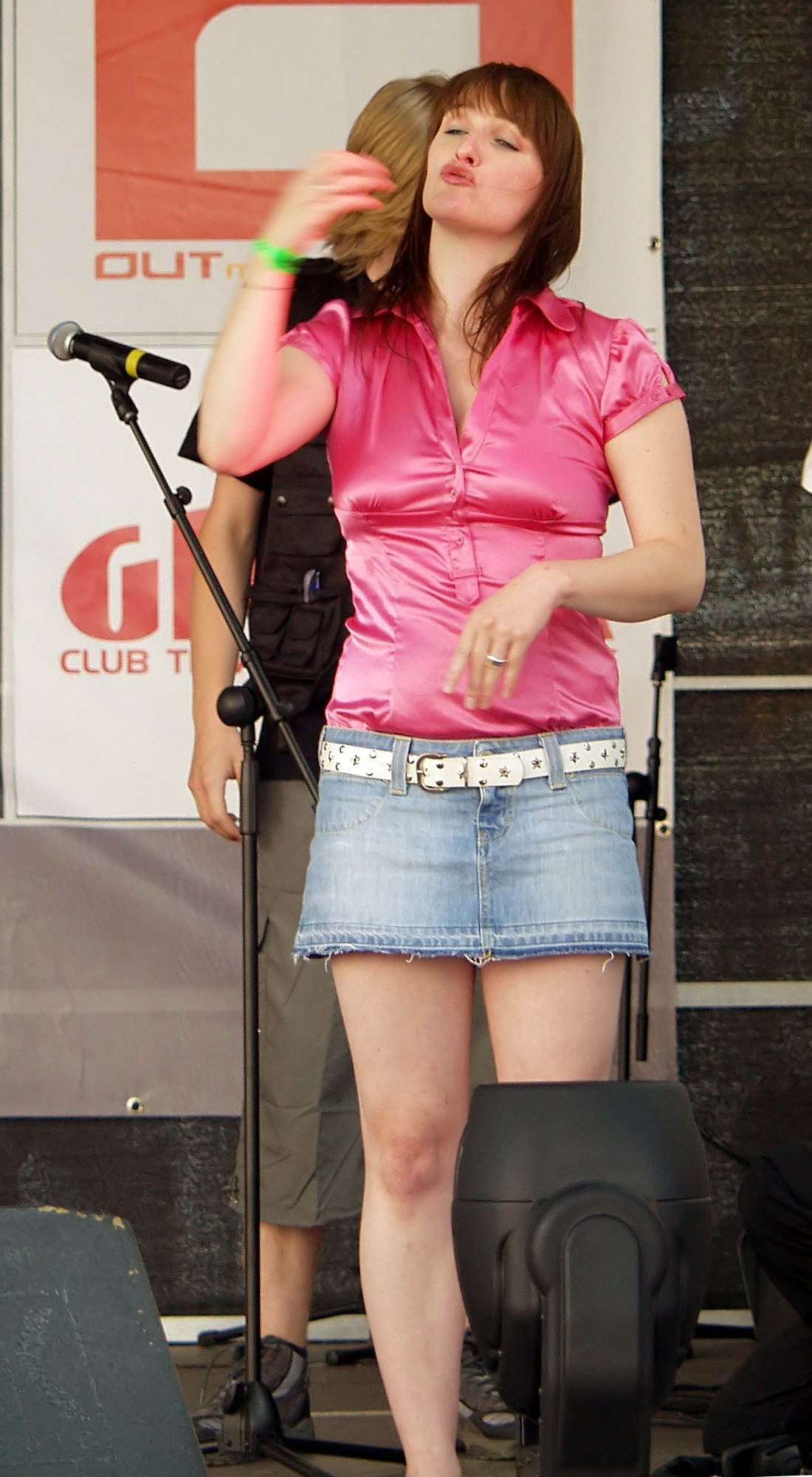 Sign language interpreter at the "Heumarkt" in Cologne, Germany during ColognePride 2006.